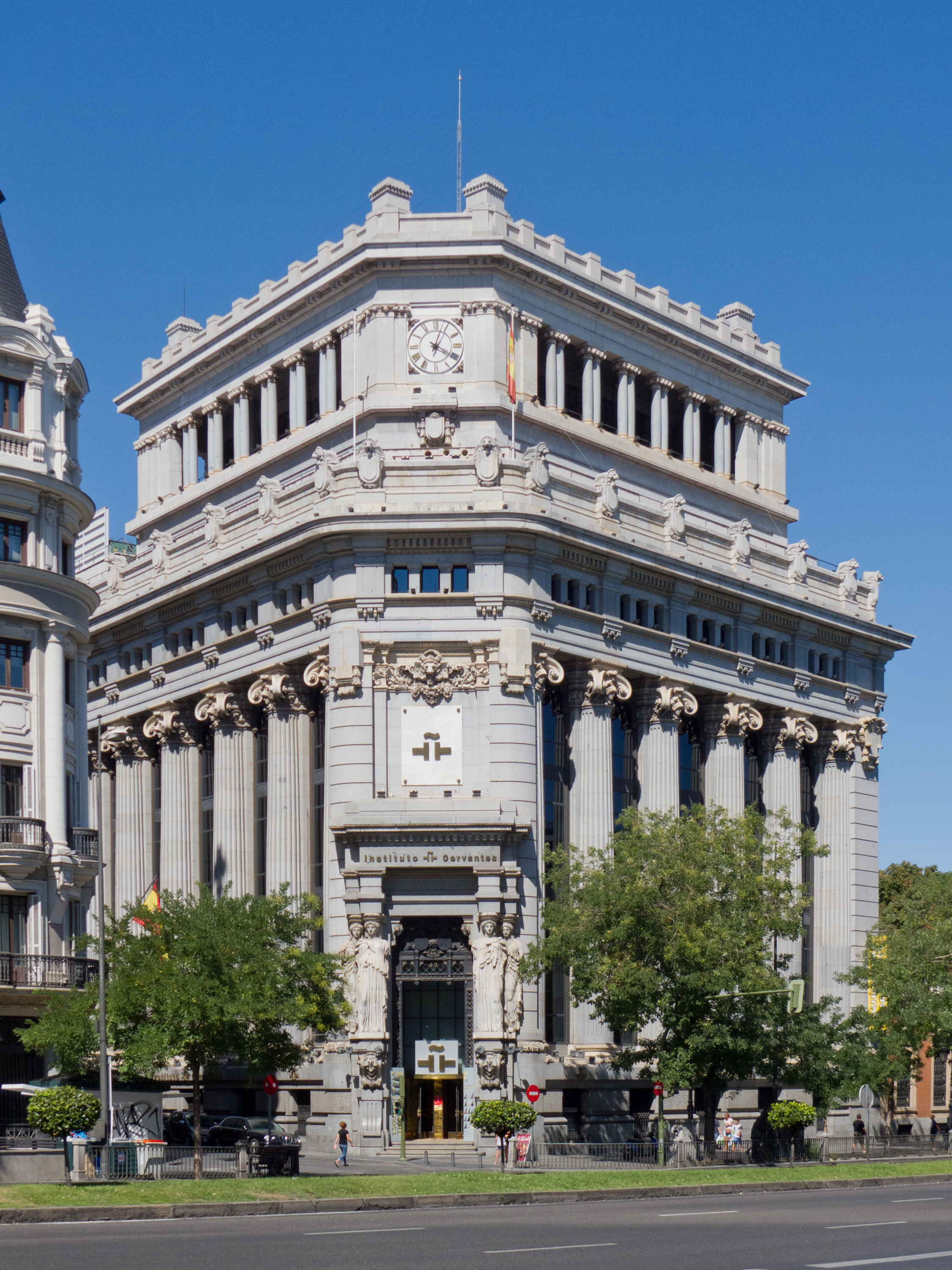 Caryatid Building, Cervantes Institute Headquarters, Madrid, Spain.